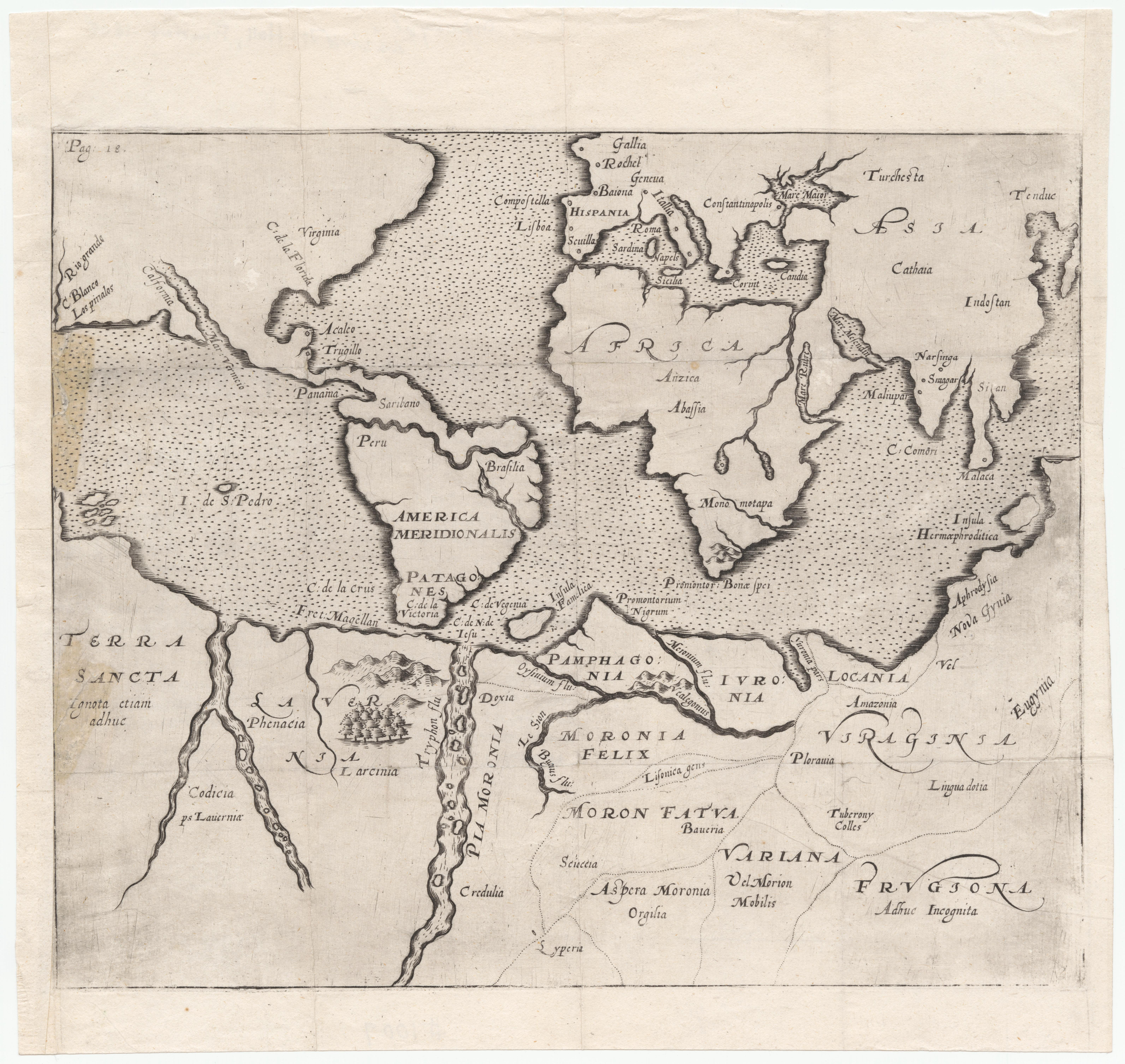 Map of imaginary southern lands from "Mundus alter et idem" (1607) by Mercurius Britannicus (Joseph Hall)